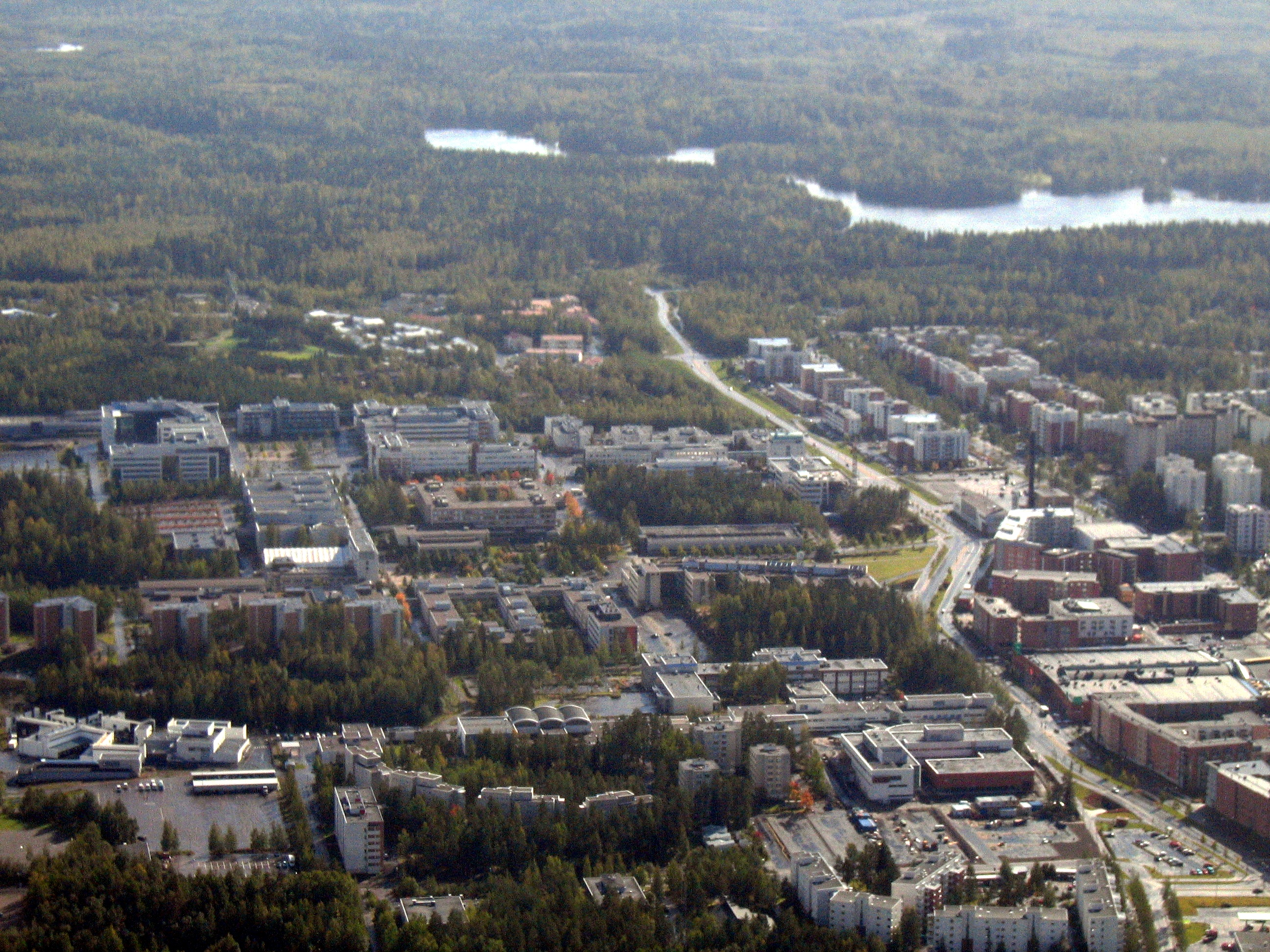 Eastern Hervanta from the air in early autumn. Photo taken towards south. On the right side, the Hervannan valtaväylä main road. On its left-hand (Eastern) side, the building complexes are (form upwards down): *a residential area of detached houses (only roofs visible) *below a small woods, Hermia technology center, including a large Nokia research complex *Tampere University of Technology campus area. A small forest area is visible between Hermia area and TUT as well as between TUT and VTT. *VTT research center *Finnish Police School and Police College *In extreme lower part, Tuulanhovi student dormitories